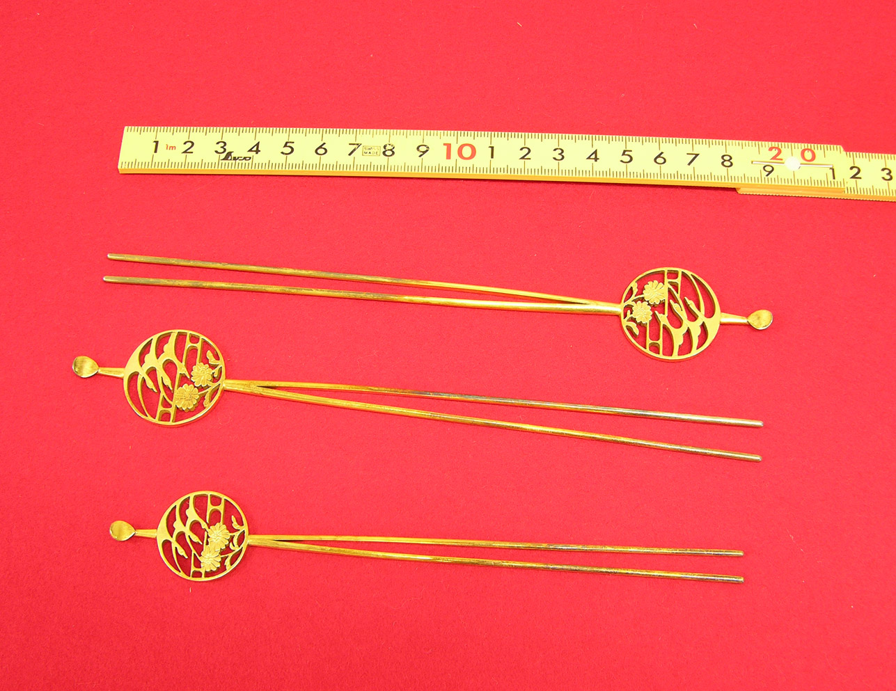 Made from gold-plated brass. Period unknown.